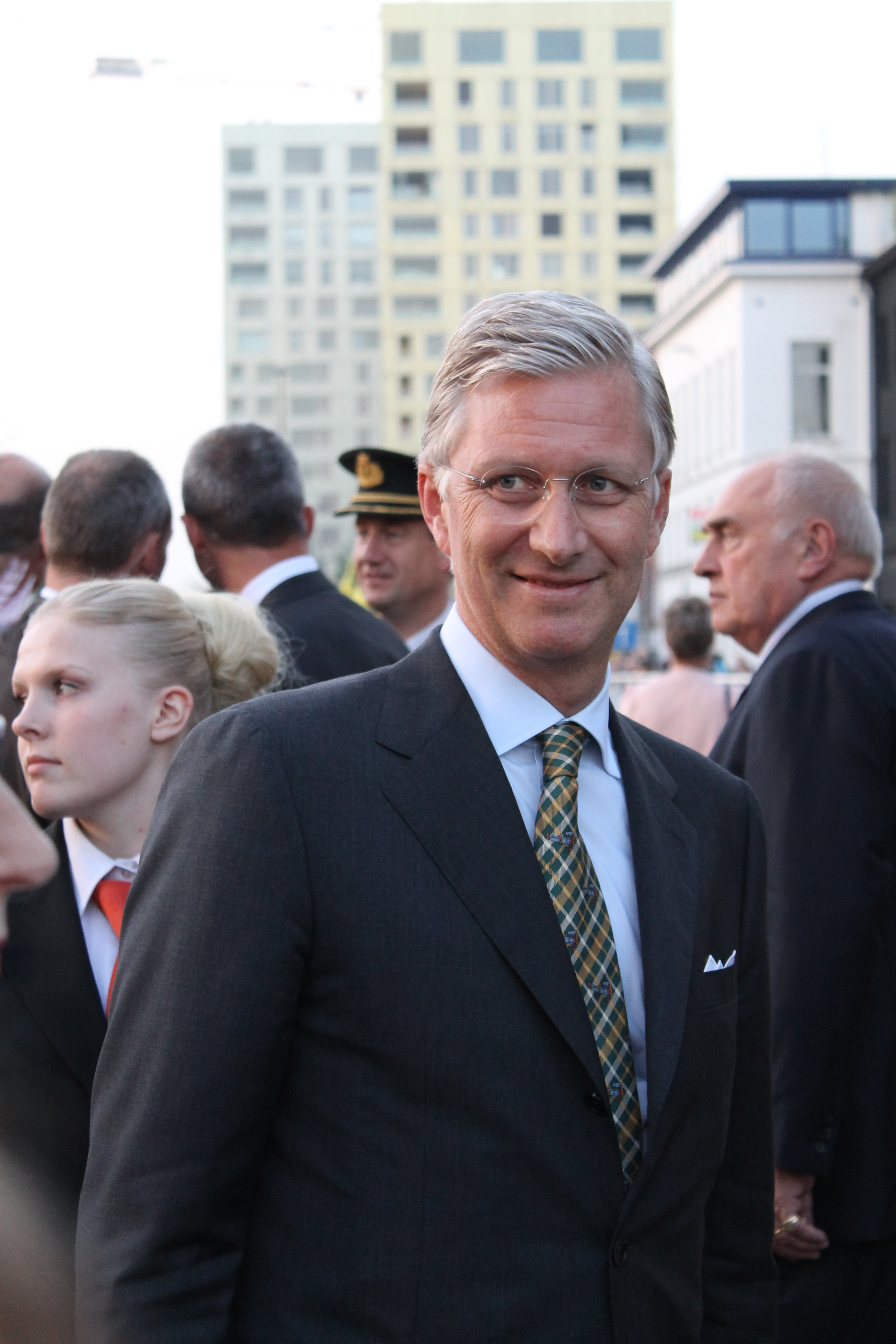 King Philippe of Belgium during the Joyous Entry in Antwerp, 27 September 2013.